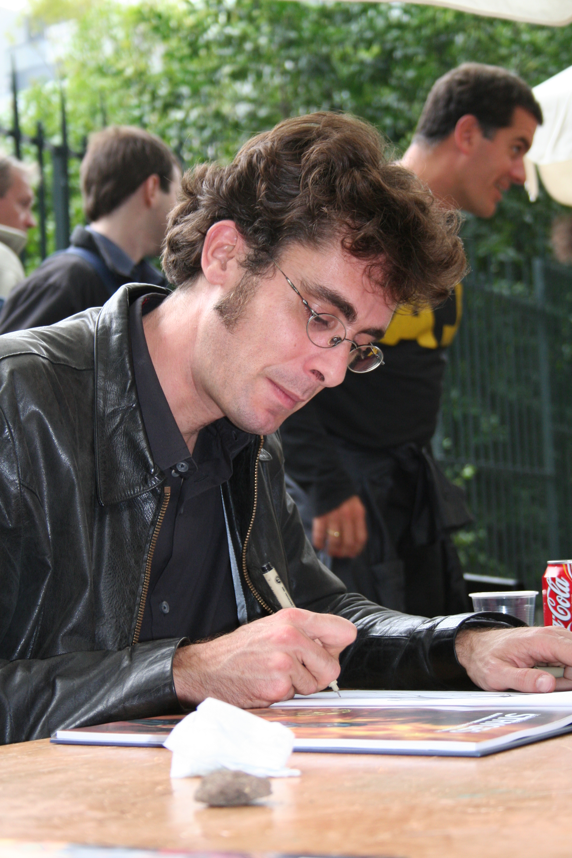 Autograph session with Richard Guérineau at Delcourt festival 2006 (Paris, France).